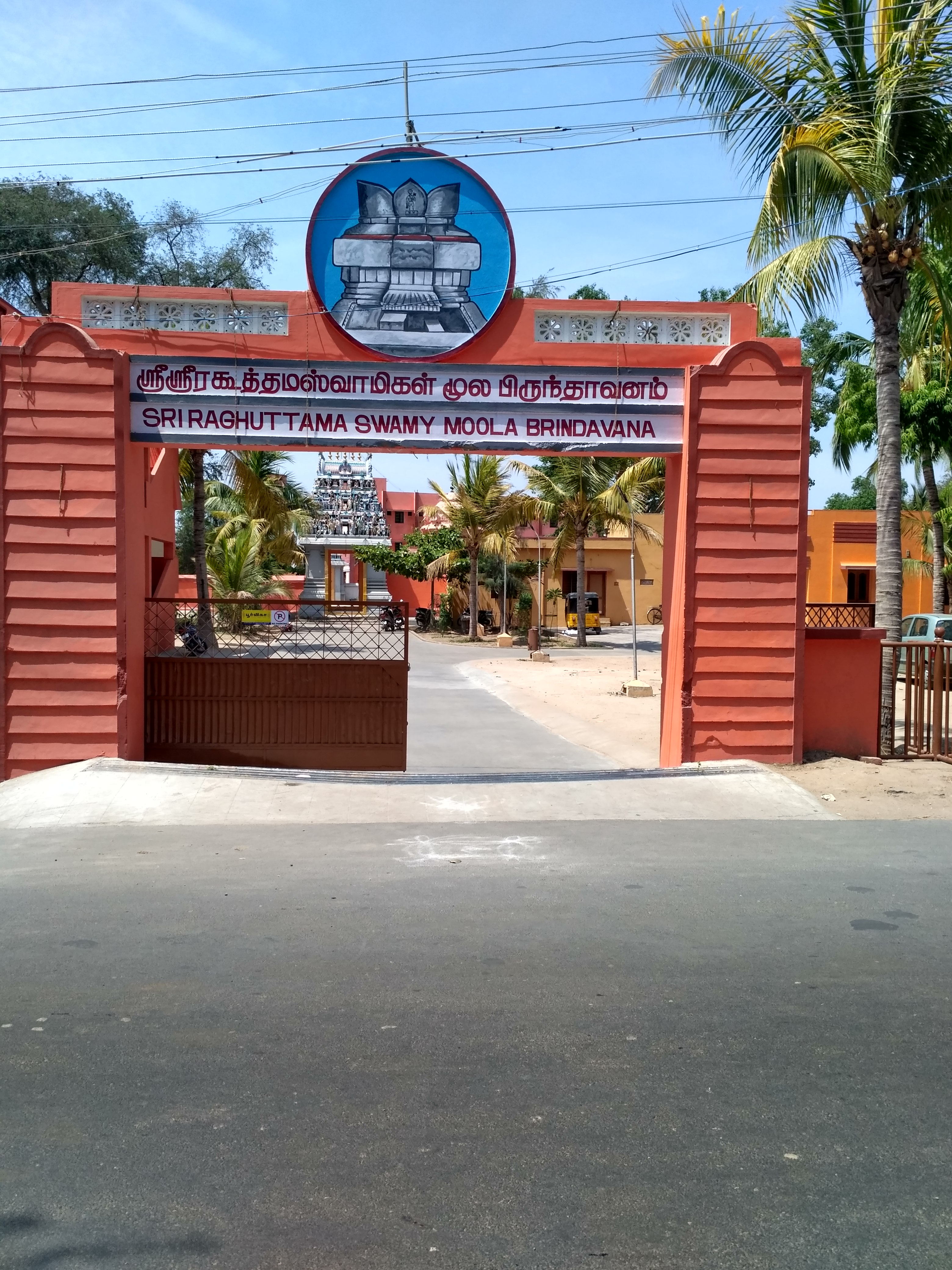 Sri sri Ragothamar birunthavanam 1